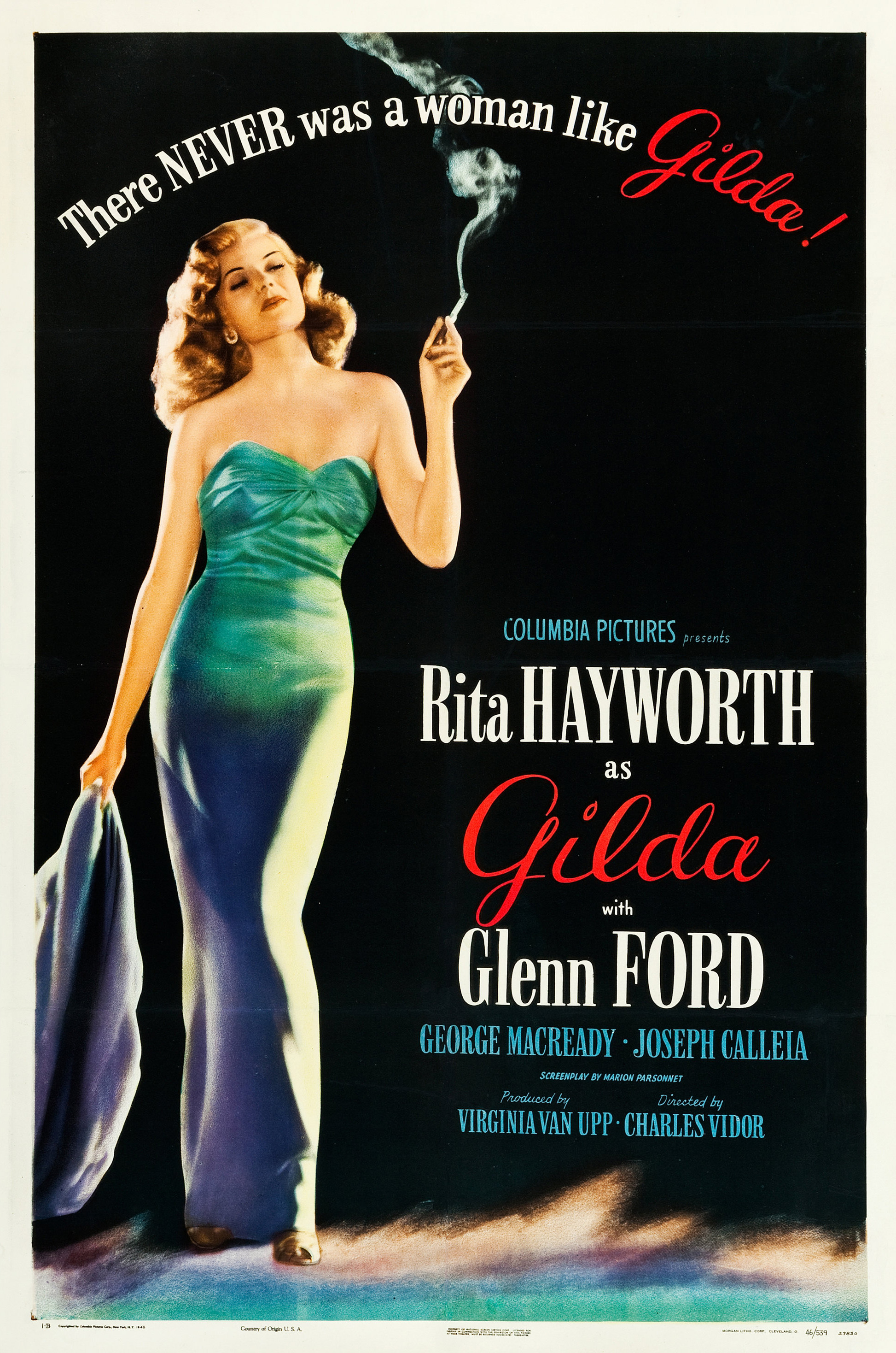 "Style B" one-sheet theatrical release poster for the 1946 film Gilda, starring Rita Hayworth.In 2003, this poster design ranked #1 on the American Film Institute's list of the "Top 100 American Movie Poster Classics" (#1–50 via the Internet Archive), part of its 100 Years... series. More on the Top 100 American Movie Posters series at and .